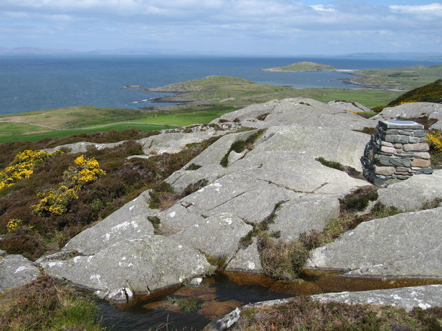 Creag Bhaan, Gigha, Inner Hebrides, Scotland. This is the highest peak on this relatively low-lying island.